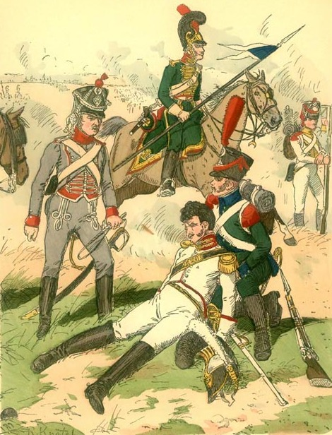 Westfalen. Königlich westfälische Truppen. 1812